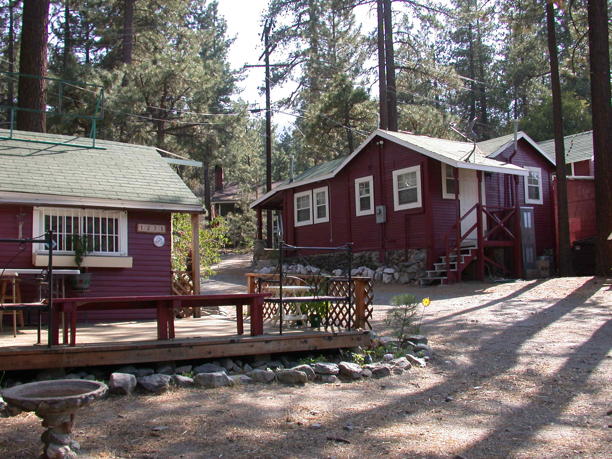 Wood cabin houses in Wrightwood, CA, USA.